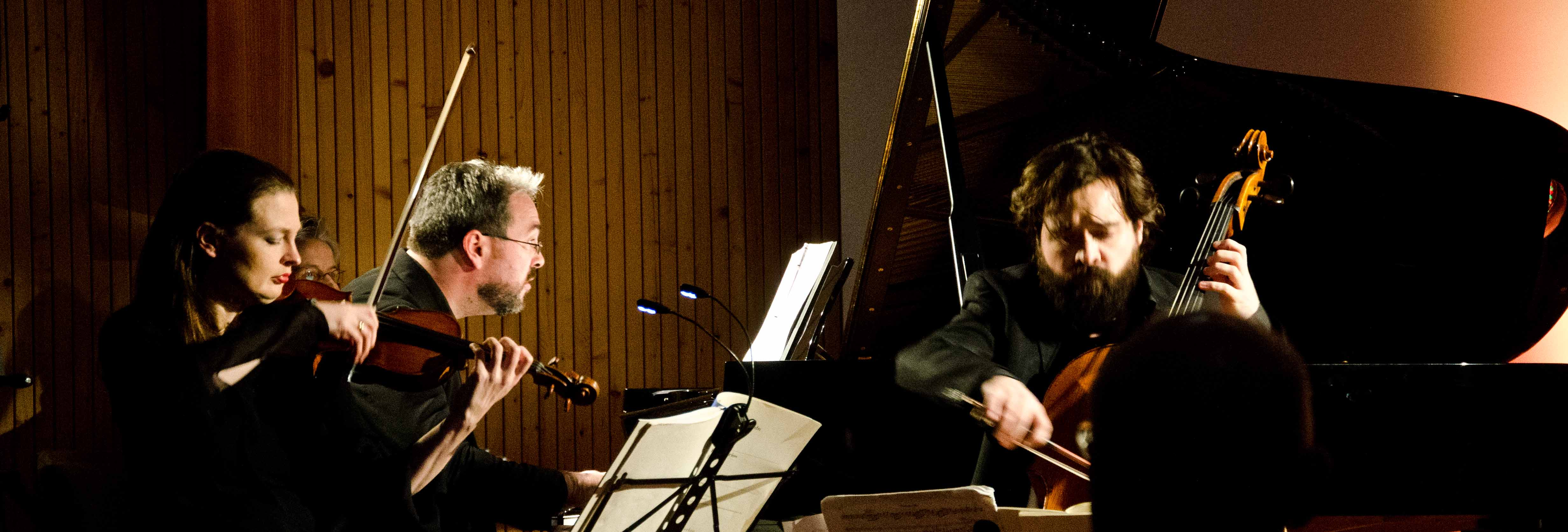 the ATOS Trio live at a house concert in Cinncinnati, OH